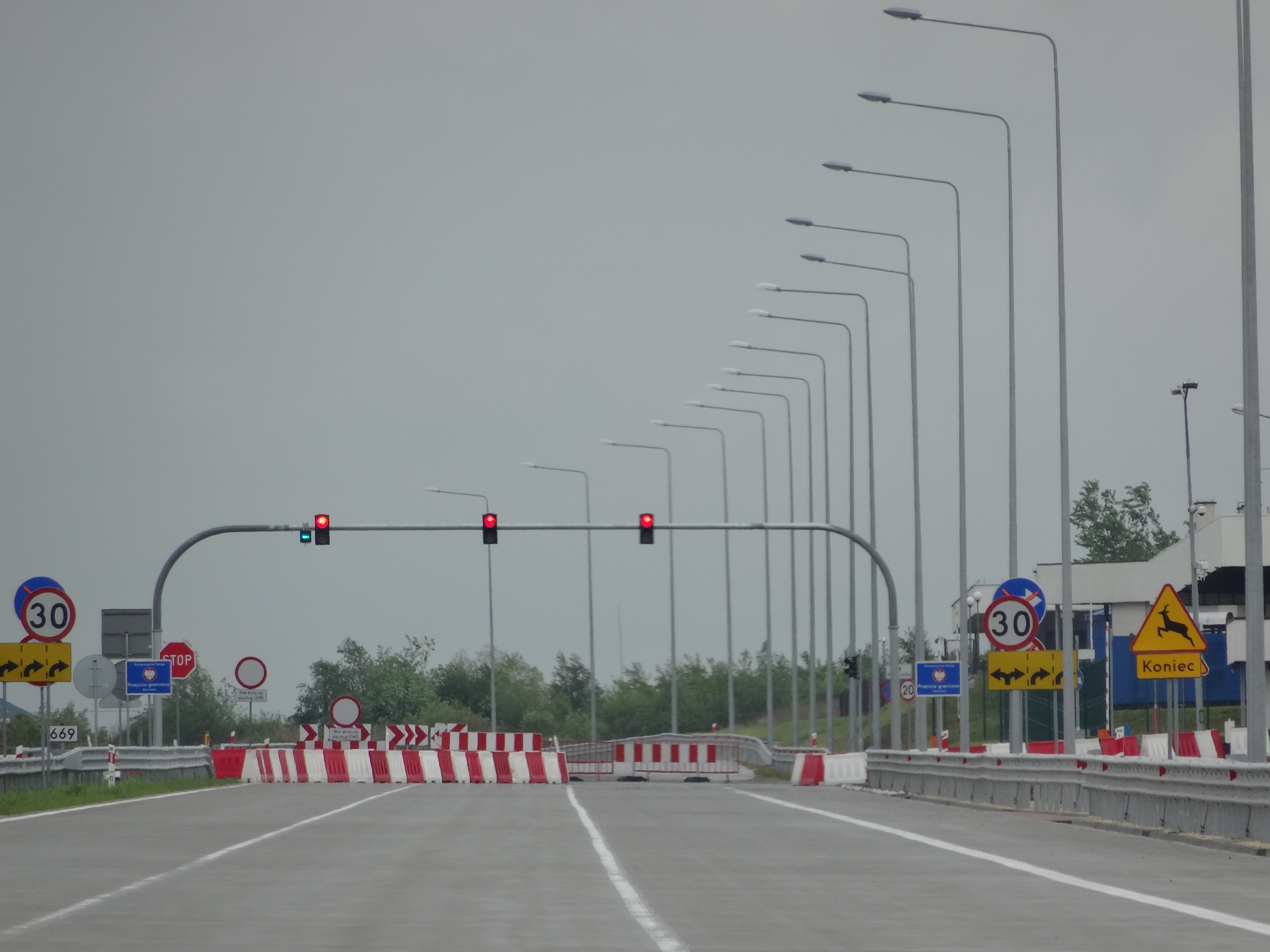 Polish-Ukrainian border